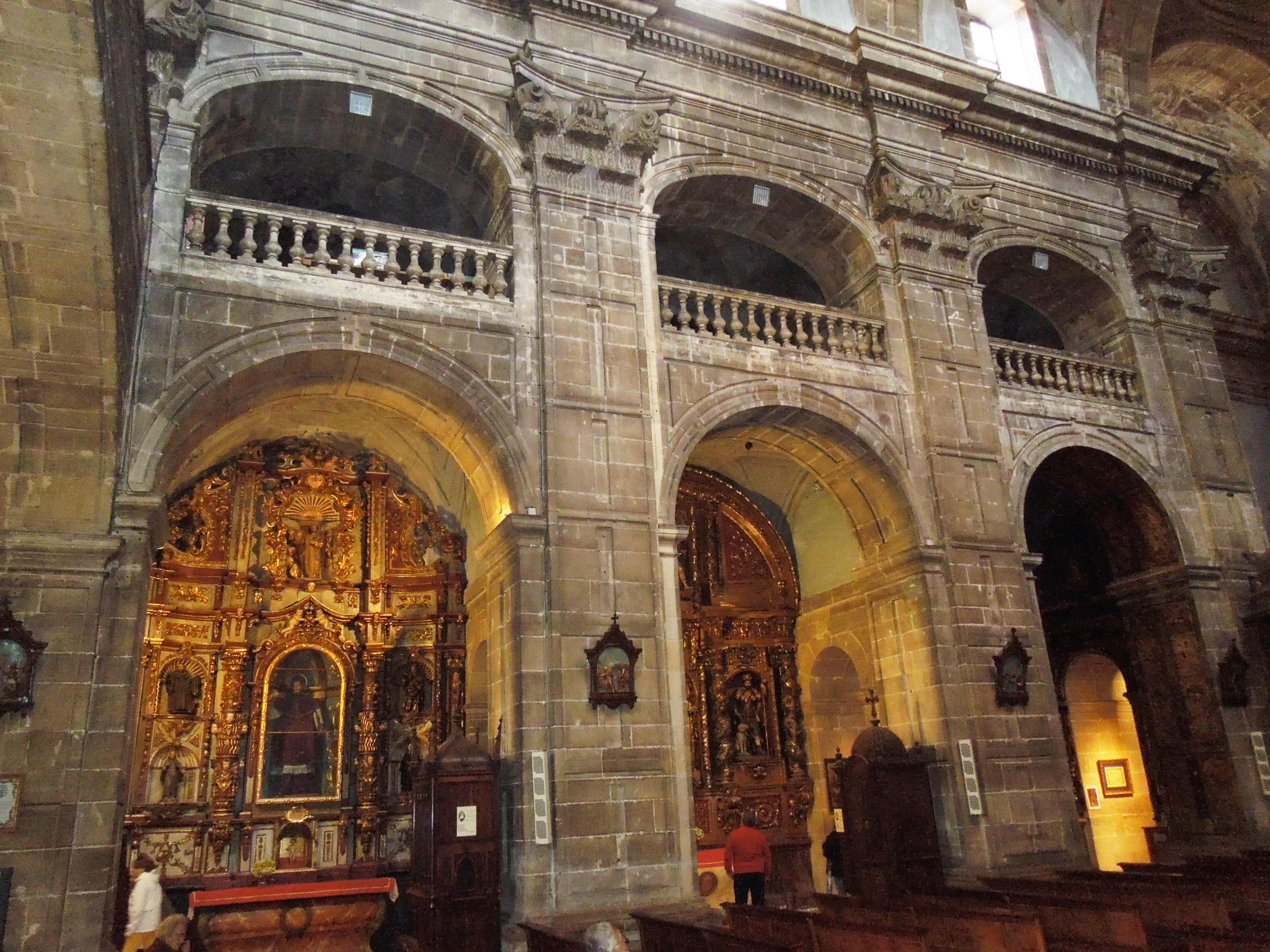 Interior of San Isidoro in Oviedo, Spain